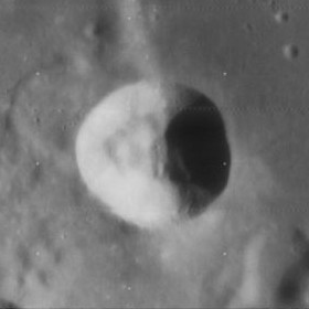 Bellot crater, on the moon.